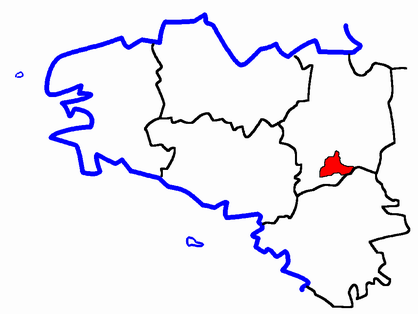 Description: Map for localisazion of cantons of Bretagne region in France Source: made by Hervé Tigier from another large map